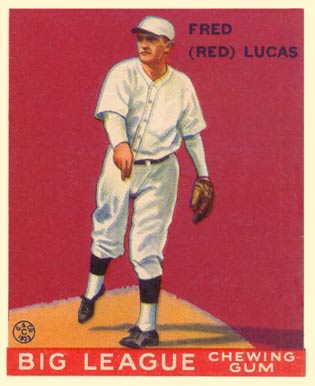 1933 Goudey baseball card of Red Lucas of the Cincinnati Reds #137. PD-not-renewed.